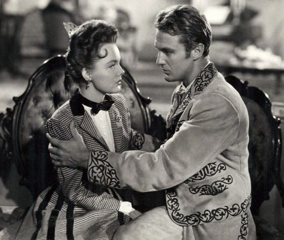 Wanda Hendrix & Robert Stack in My Outlaw Brother (1951 - publicity still (cropped)